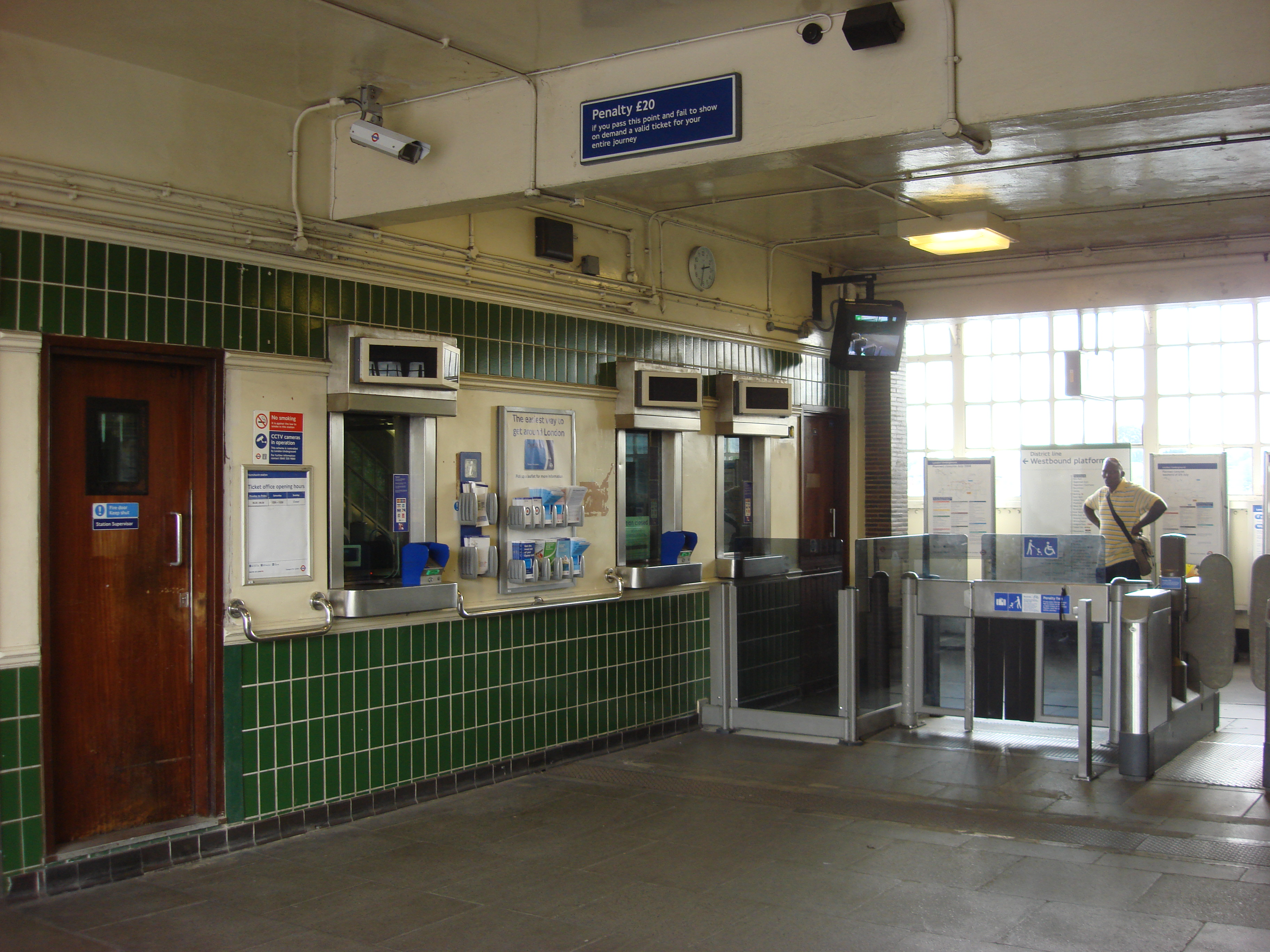 Hornchurch tube station, ticket office